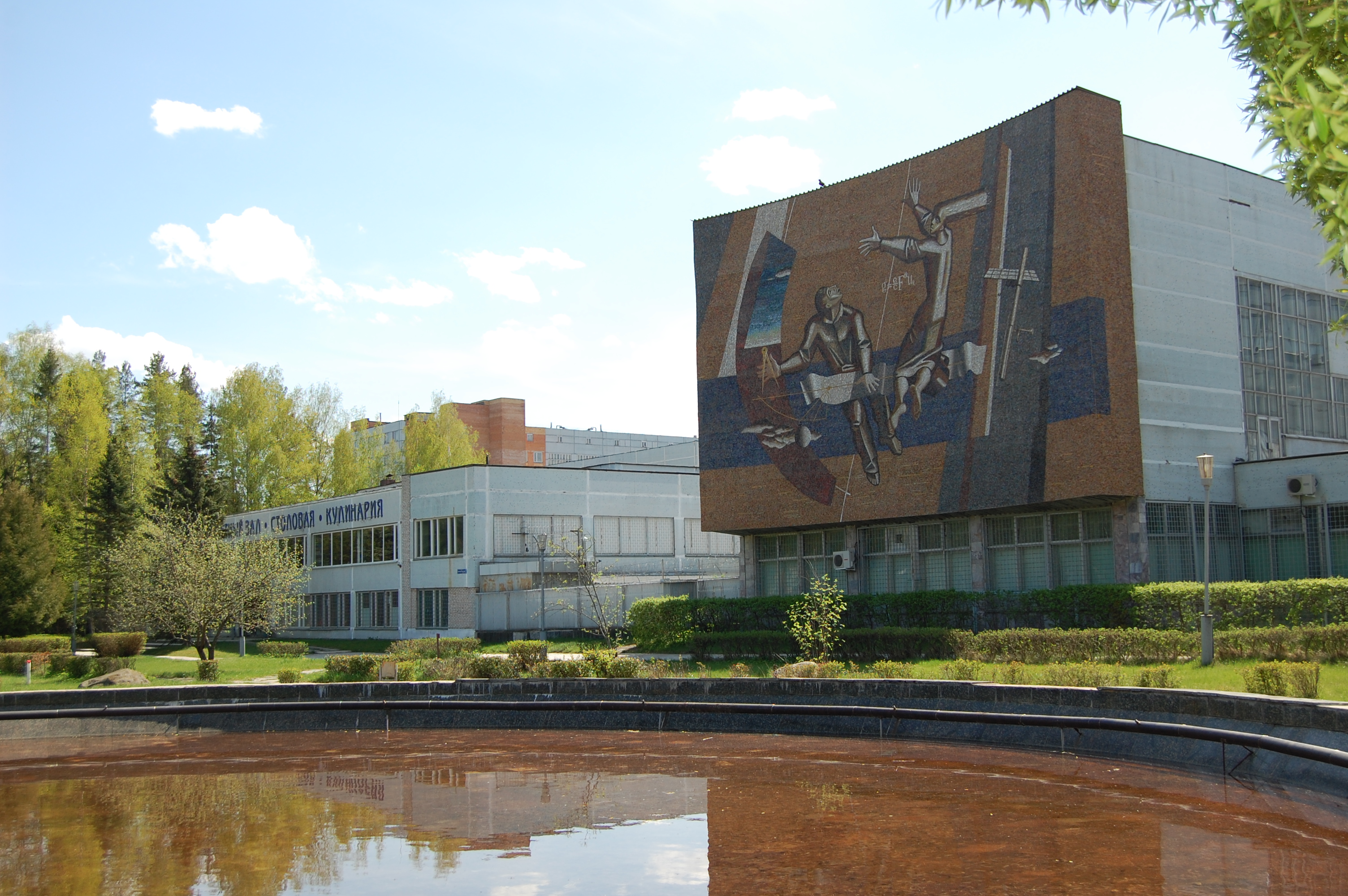 Buildings of the instrumental plant "Tenzor" decorated with mosaics in Dubna, Moscow oblast